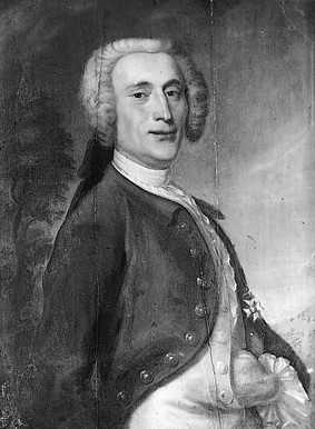 Portrait of Olof von Dalin (1708-176), poet